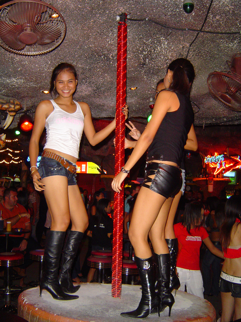 Go-Go dancers at an open-air bar in Patong Beach, Thailand Image by ChrisO